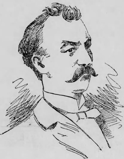 William T. Jeter, California Lieutenant Governor